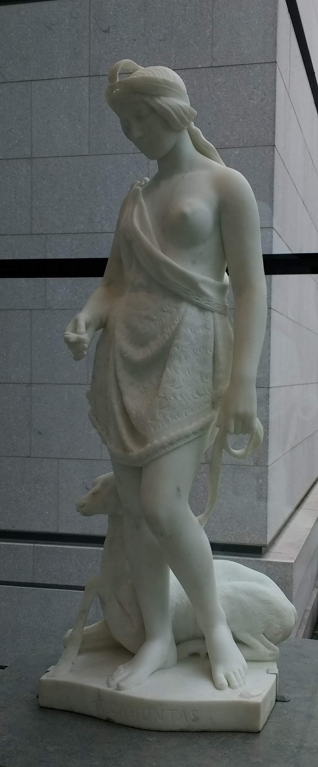 Statue: Pocahontas. Joseph Mozier, 1867. Museum of Fine Arts Boston.